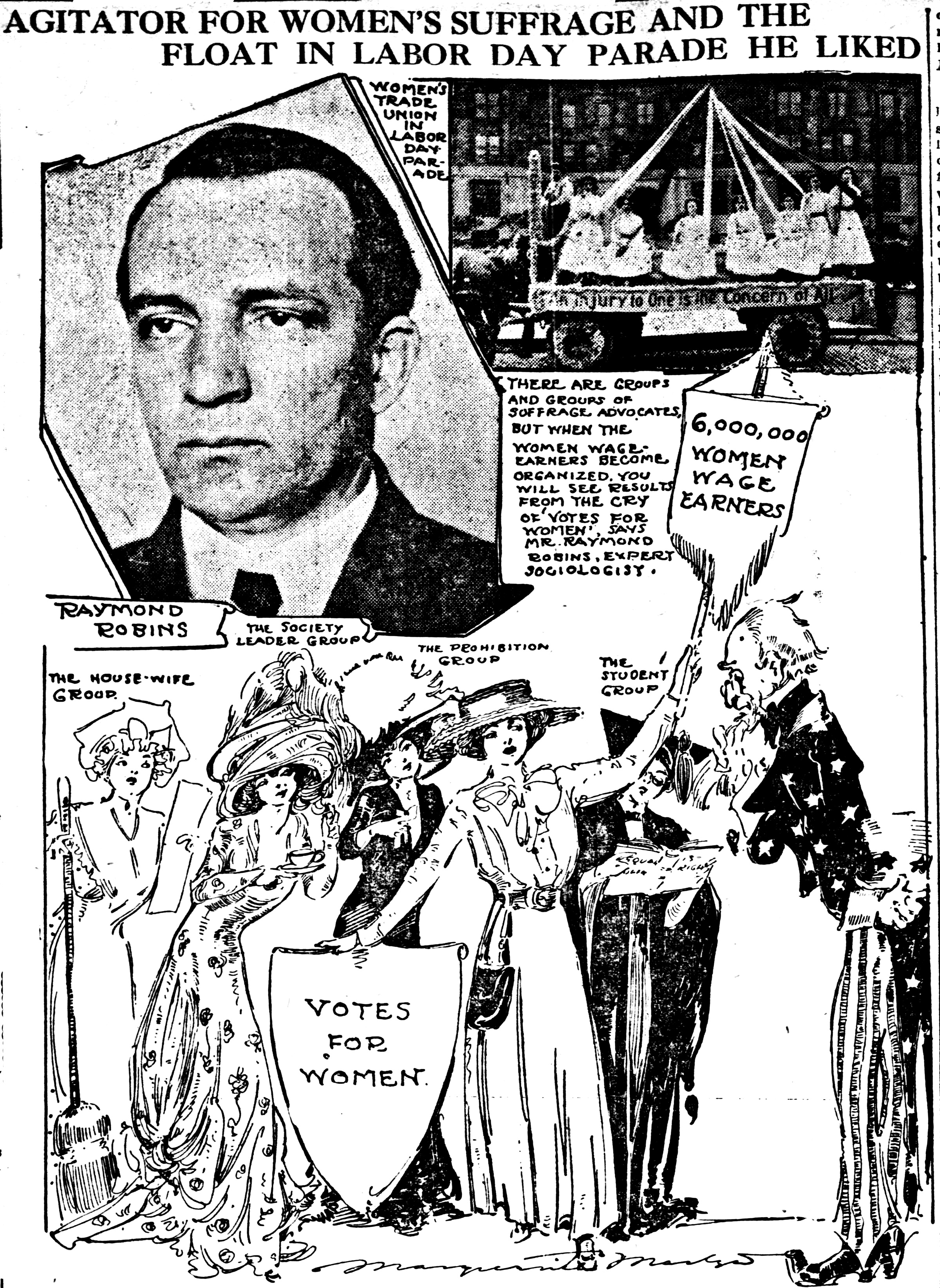 This layout in the September 10, 1909, issue of the ‘’St. Louis Post-Dispatch’’ features a photograph of Raymond Robins,. At top right is a photo of a horse-drawn float in a Labor Day parade that week, sponsored by the Women’s Trade Union, with seven white-garbed women on the float, which bears the slogan “An Injury to One is the Concern of All.” At bottom Marguerite Martyn has drawn the figures of five women representing housewives, society leaders, prohibitionists, and students. One holds up a sign reading “6,000,000 women wage earners.” Uncle Sam looks on from the right. There is a headline over the illustration.